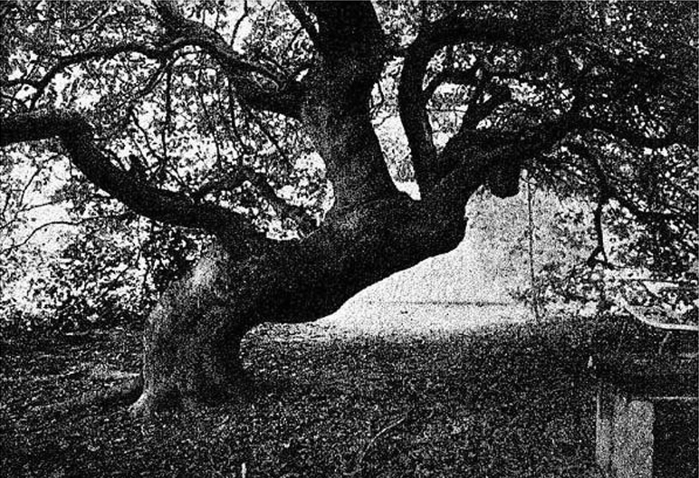 Dwarf Beech near Lauenau in Germany in 1907, published first in 1911 in Denmark.